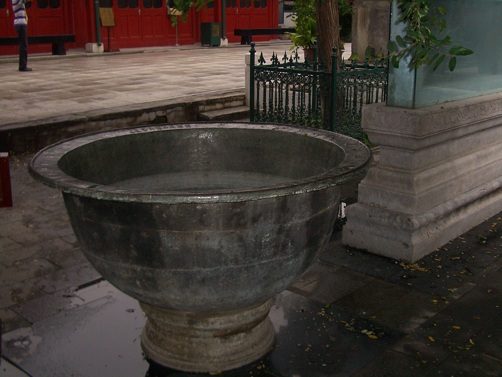 Niujie Mosque, Beijing